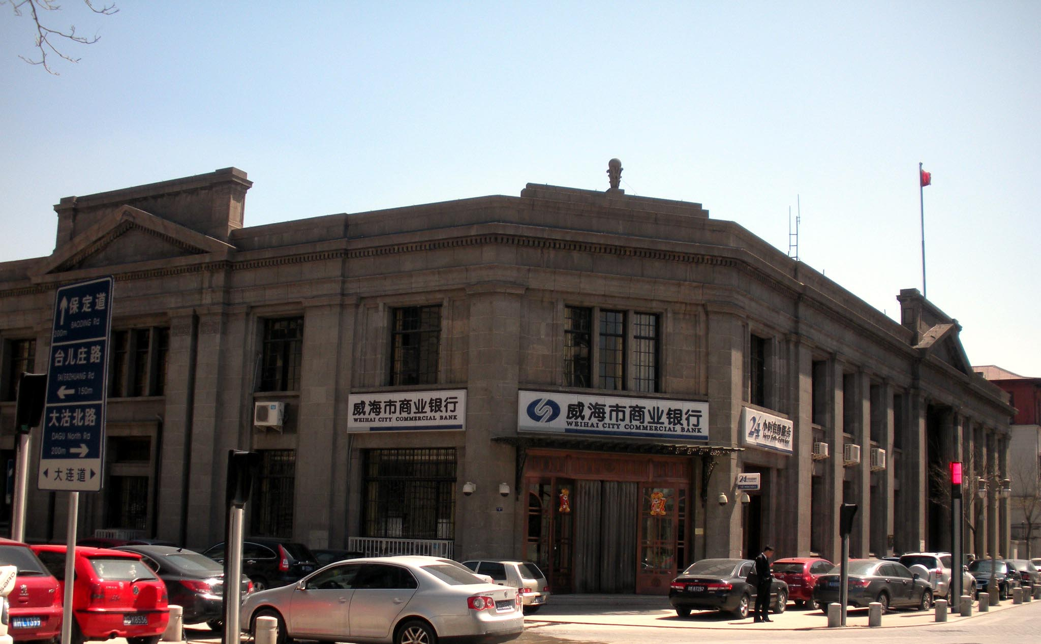 Jardine, Matheson & Co. Ltd in Tianjing,China